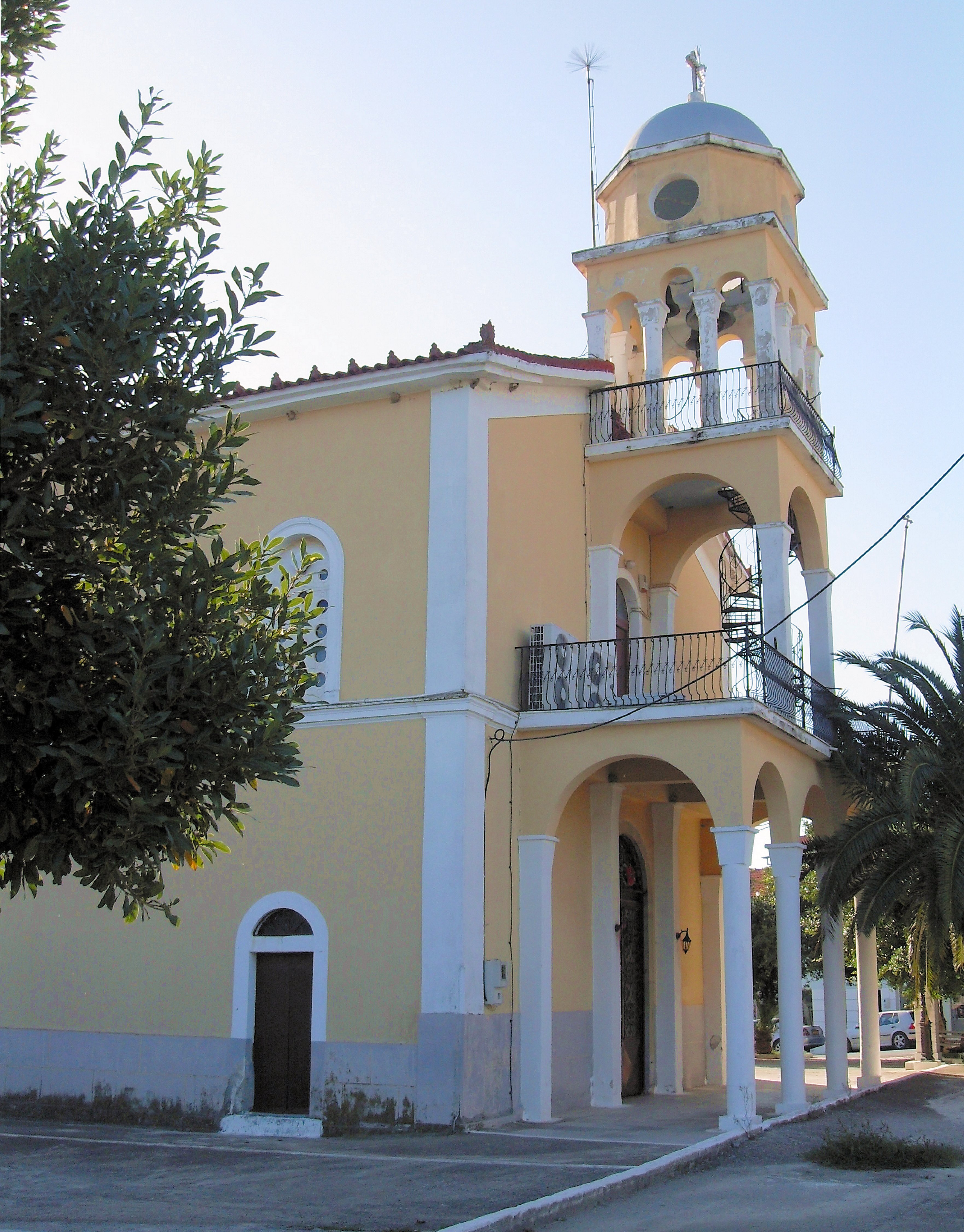 Church in Charokopio, municipality of Koroni, community of Pylos-Nestor